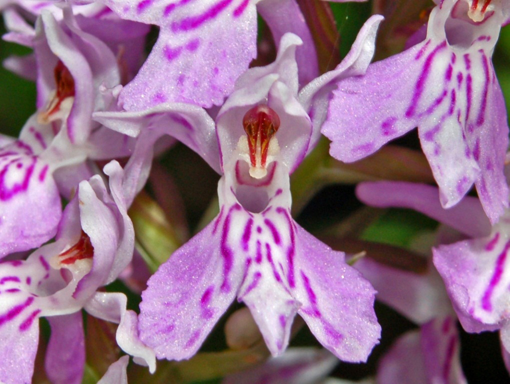 Dactylorhiza maculata - Val Noci, Genova, Italy